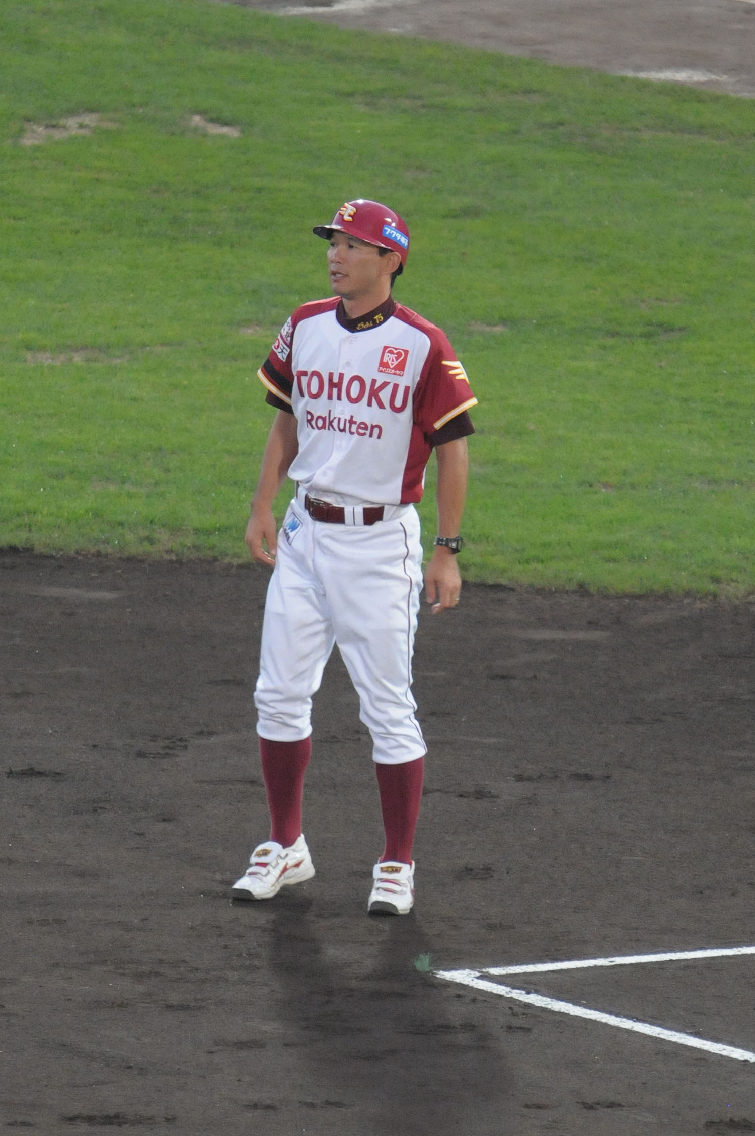 Koichi Sekikawa, coach of the Tohoku Rakuten Golden Eagles, at Akita Prefectural Baseball Stadium.